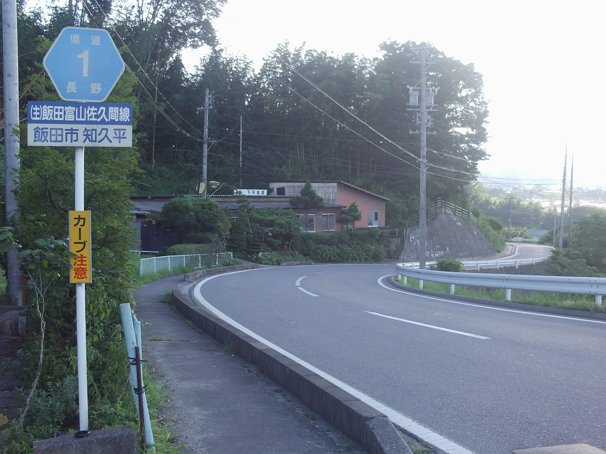 Nagano prefectural road No.1 in Shimohisakata Chikudaira, Iida, Nagano.